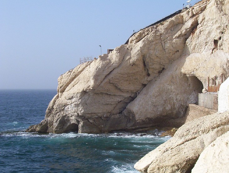 Rosh HaNikra grottoes.